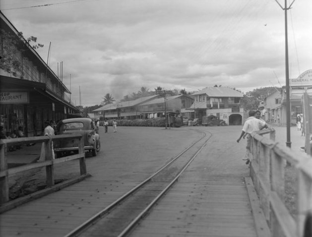 Ba, Fiji, with sugar cane train on railway track on the road, shops, people and vehicles. Ref WA-22181-F. Alexander Turnbull Library, Wellington, New Zealand. Record No 22897014